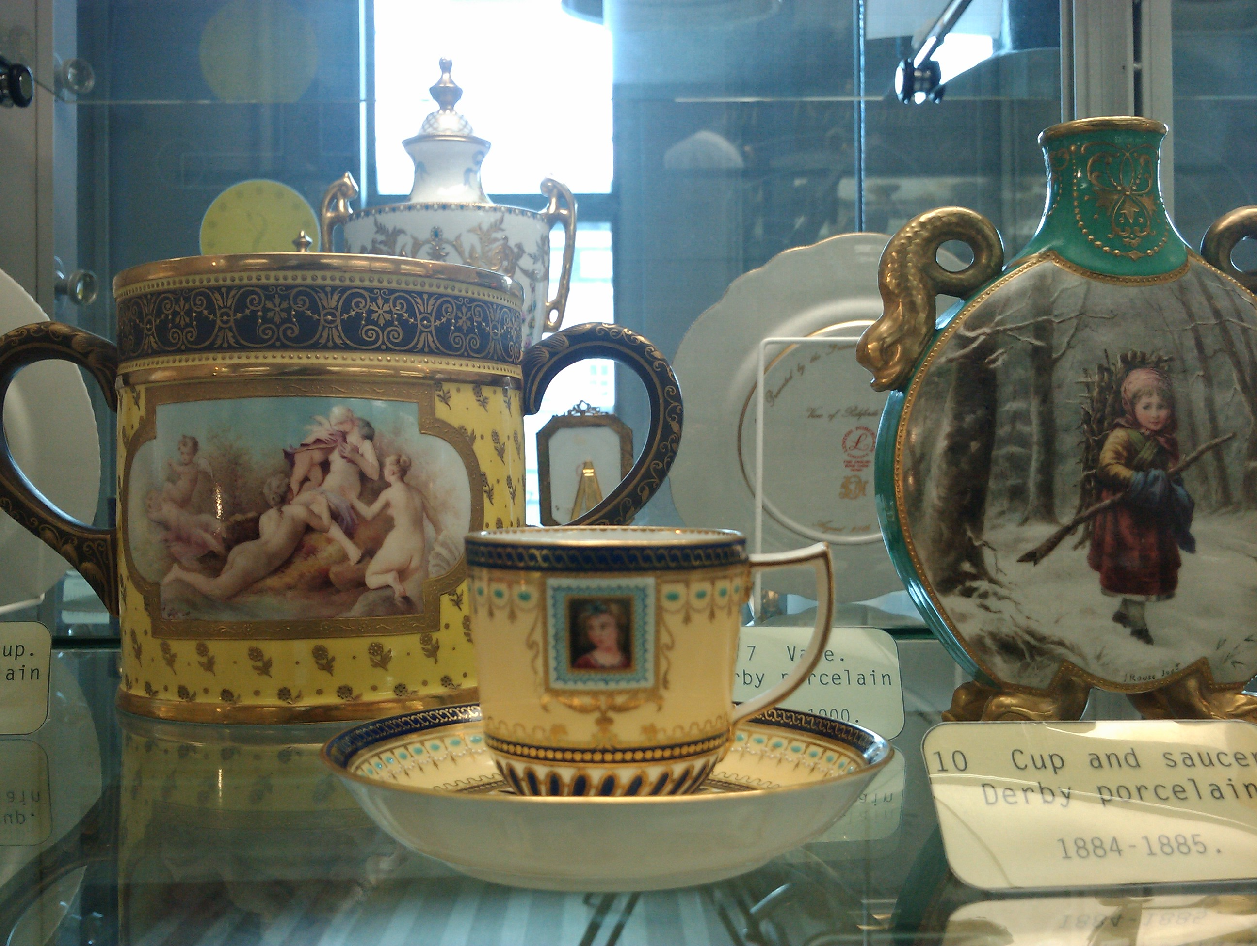 Porcelain tea cup and saucer. Picture loaded in readiness for the GLAMWIKI event in April 2011 at Derby Museum and Art Gallery Details are here